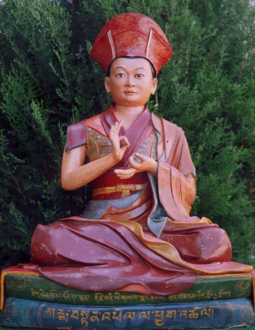 The First Gyalwa Dokhampa Ngawang Tenphel (1569-1637)